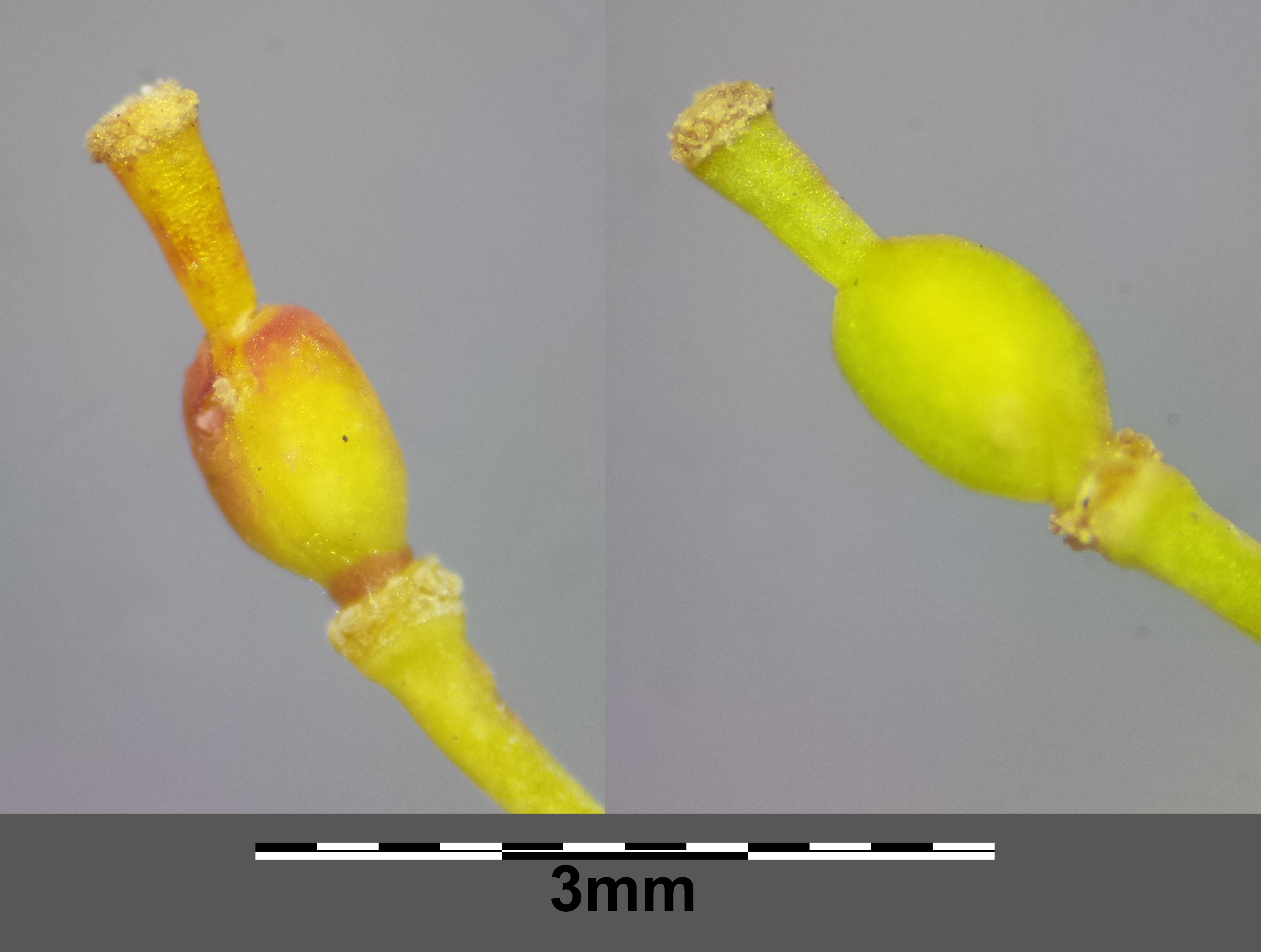 Silique Taxonym: Rorippa austriaca ss Fischer et al. EfÖLS 2008 ISBN 978-3-85474-187-9 Location: Donaupark, Vienna-Donaustadt - ca. 160 m a.s.l. Habitat: ruderal, dry meadows